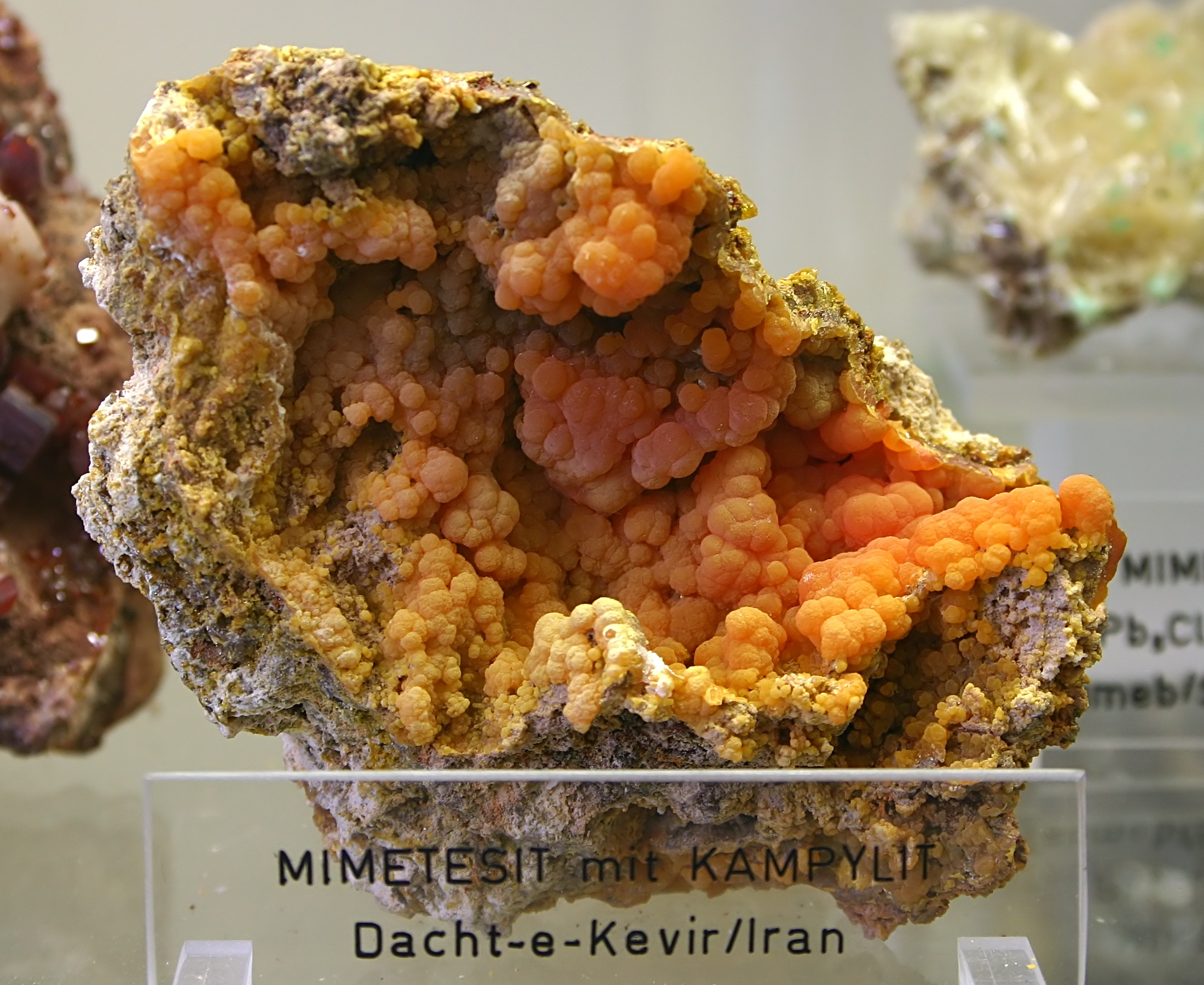 Mimetite with Campylite. Locality: Dacht-e-Kevir, Iran. Exposed in the Mineralogical Museum, Bonn, Germany